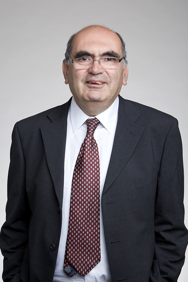 Sandu Popescu FRS (born 1956 in Oradea, Romania) is a Romanian-British physicist working in the foundations of quantum mechanics and quantum information. Attribution: The Royal Society